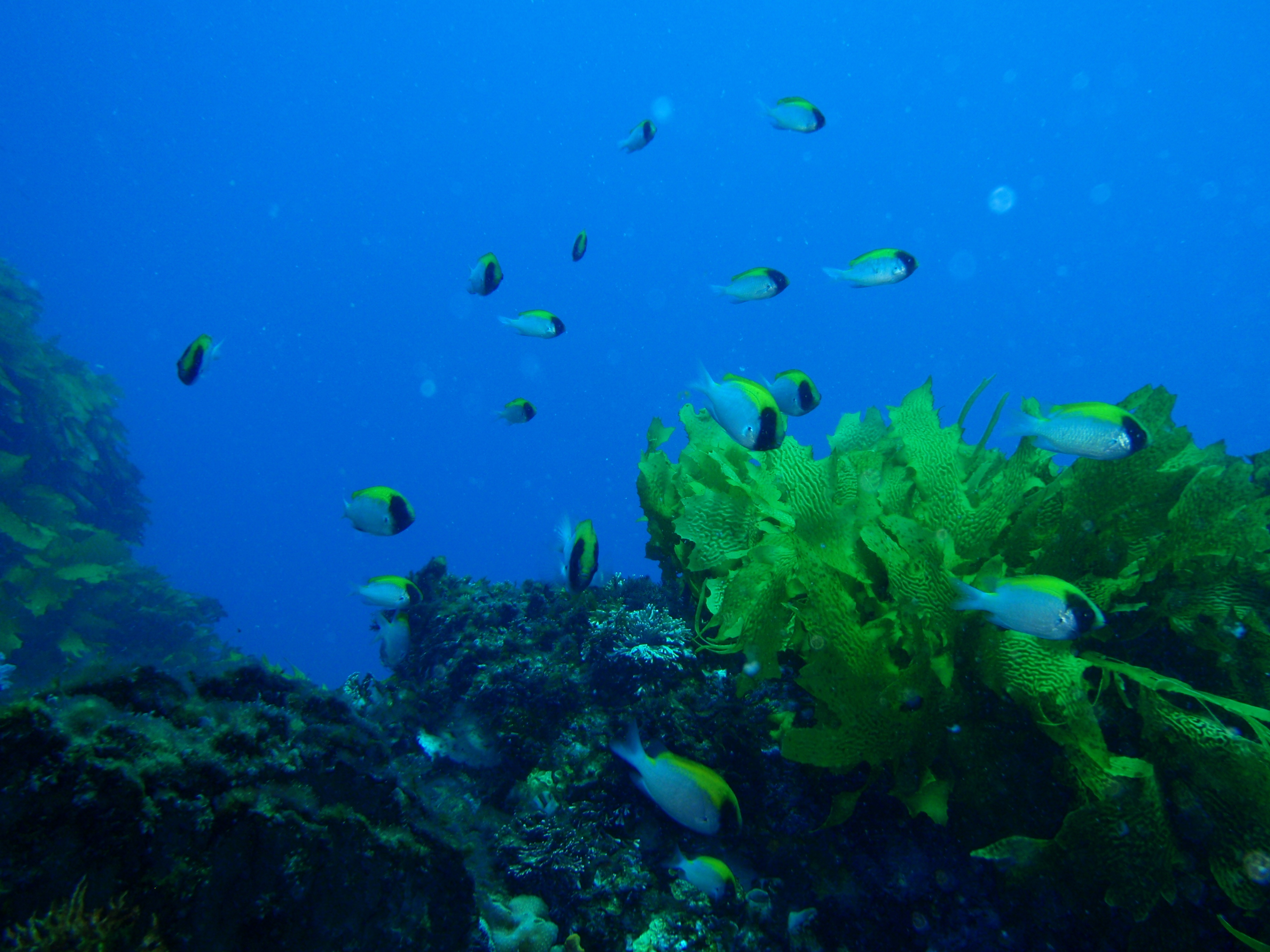 Blackhead puller Chromis klunzingeri at Michaelmas Reef in King George Sound, South Australia.